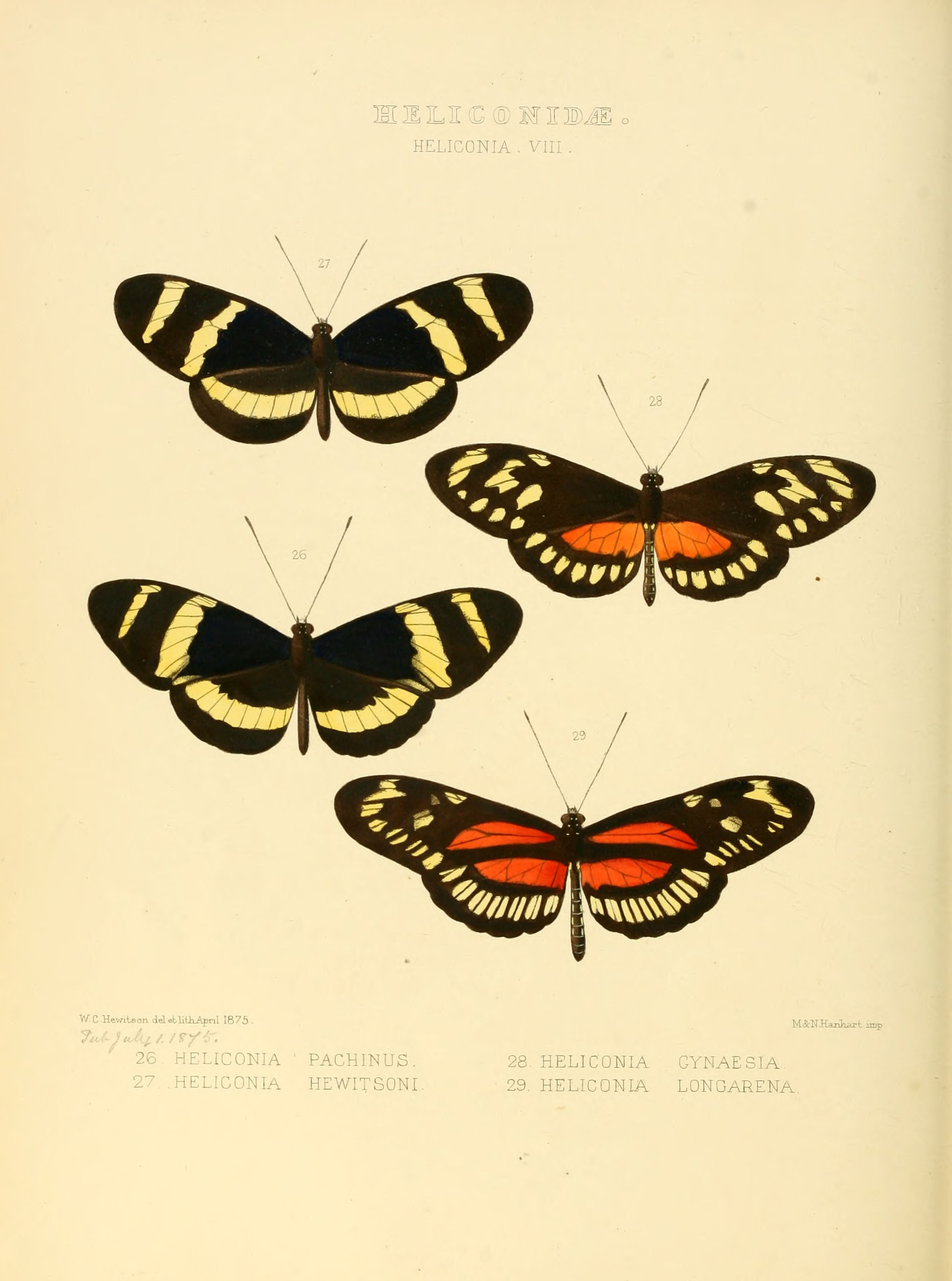 Plate: Heliconia VIII Heliconia pachinus. Fig. 26. Accepted as Heliconius cydno Doubleday, 1847. Heliconia hewitsoni. Fig. 27. Accepted as Heliconius sapho (Drury, 1782). Heliconia gynaesia. Fig. 28. Accepted as Heliconius hecalesia Hewitson, 1854. Heliconia longarena. Fig. 29. Accepted as Heliconius hecalesia Hewitson, 1854.